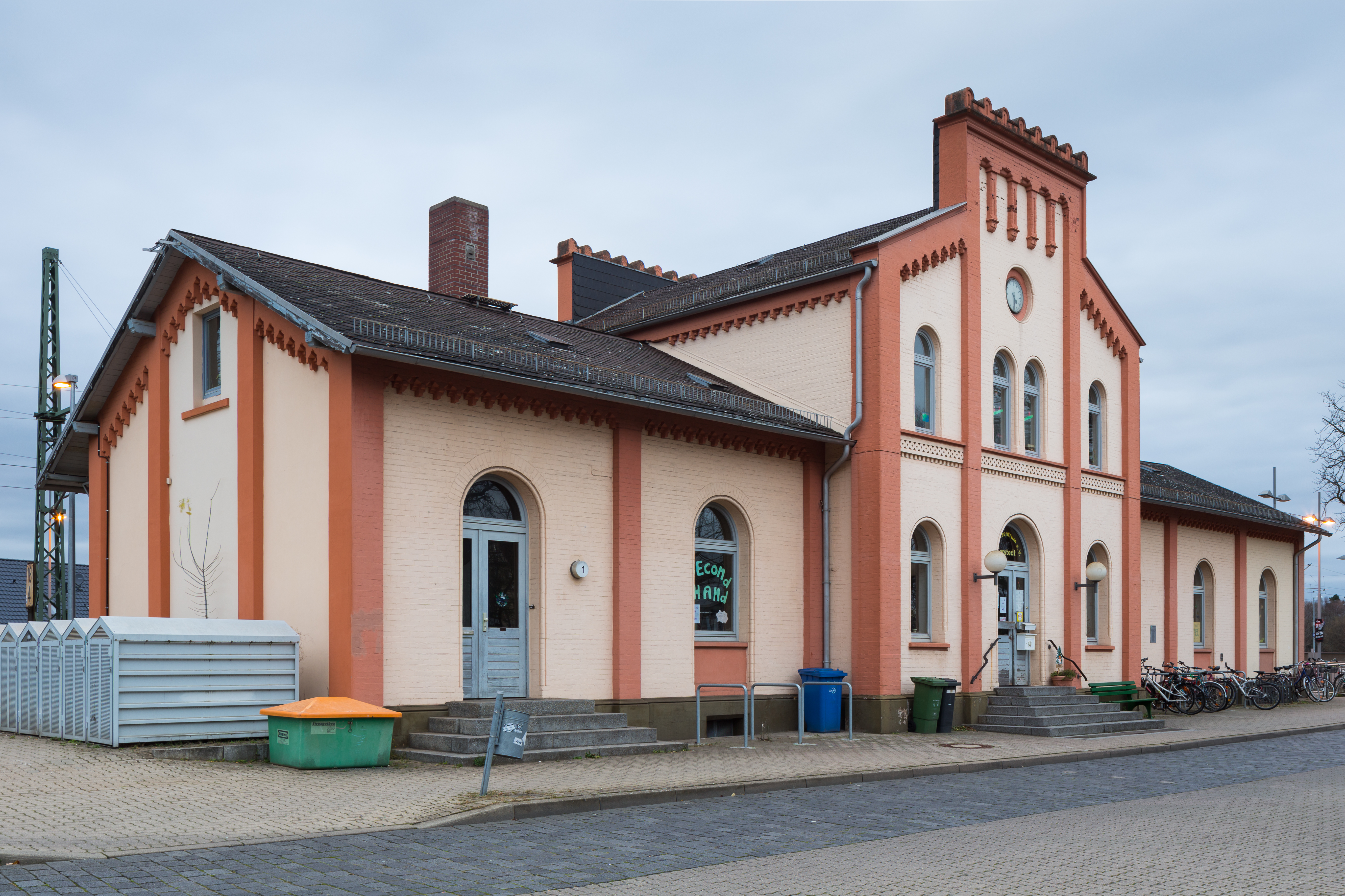 Station builing of Sarstedt train station, located at Sarstedt in Hildesheim administrative district, Germany. The image shows the road facing side of the building.